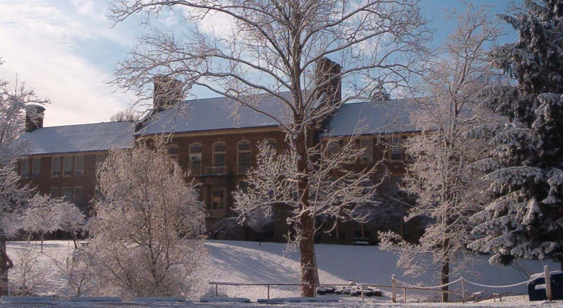 FSHS in the Winter